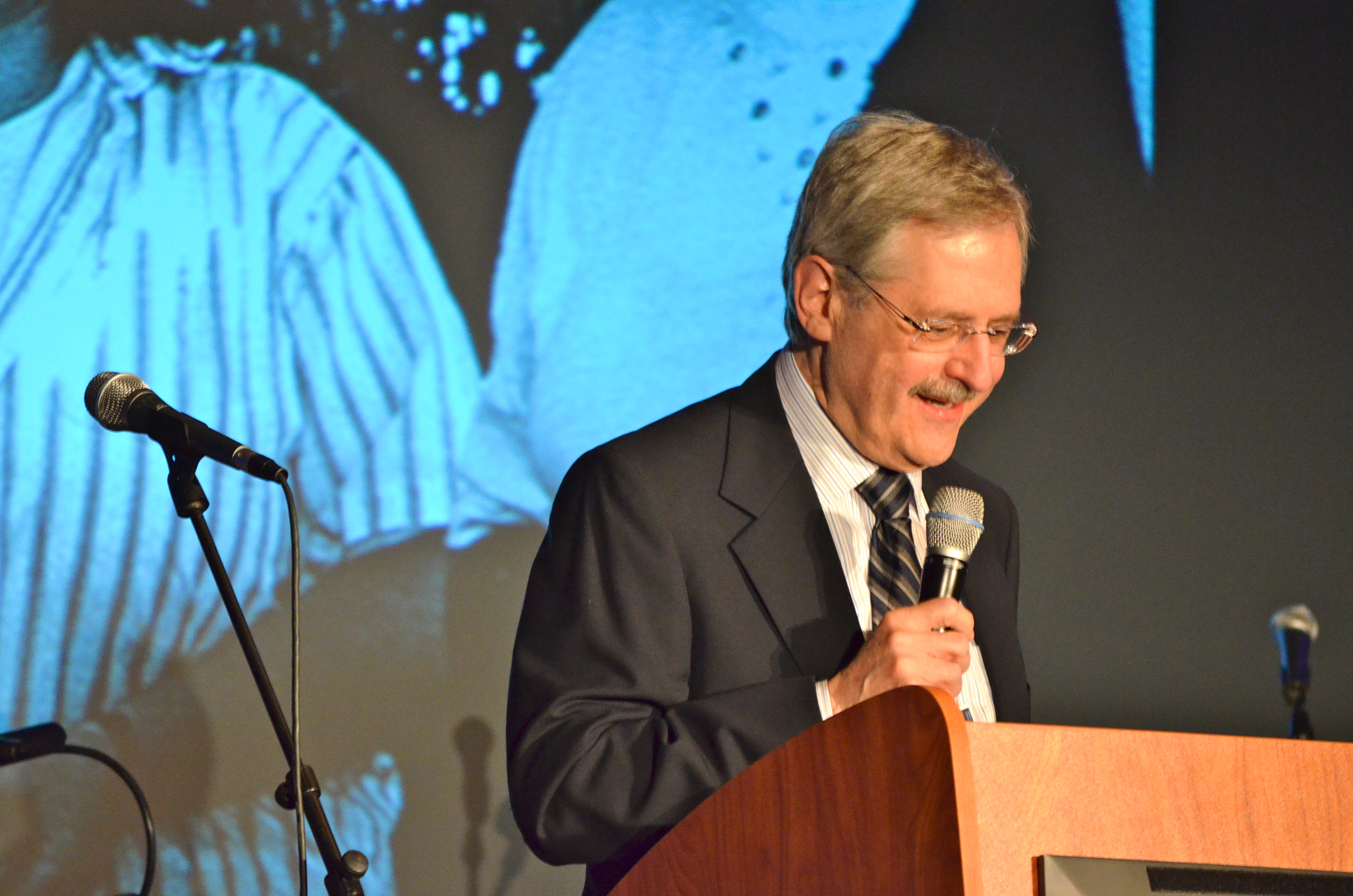 Host of the Silicon Valley Lecture Series, Andrew Fraknoi: .